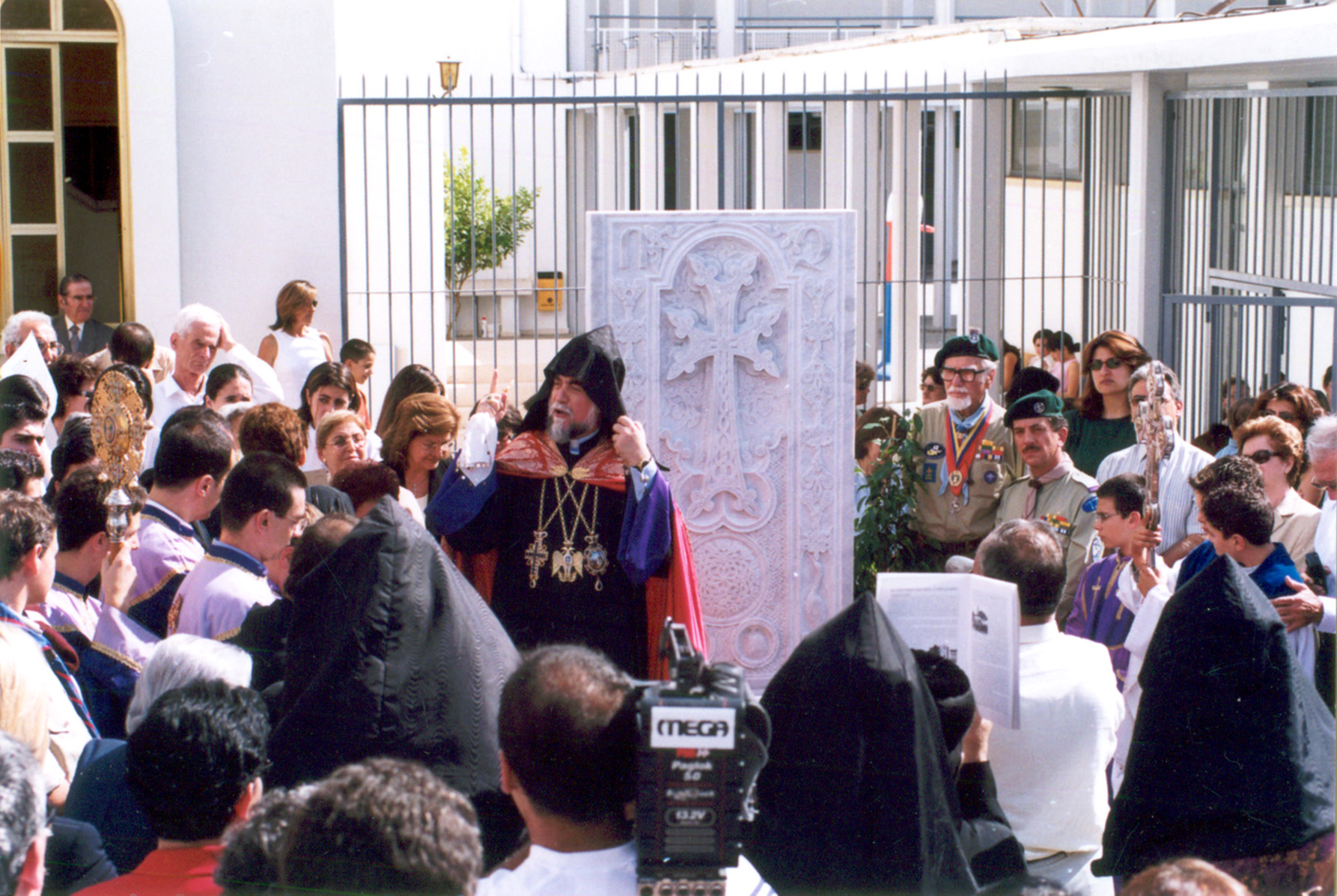 Catholicos Aram I of Cilicia, during the inauguration of the khachkar in front of the Sourp Asdvadzadzin church in Nicosia.